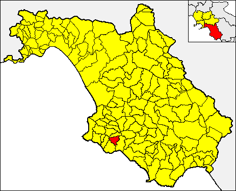 Locator map of the municipality of Stella Cilento (red) within the Province of Salerno